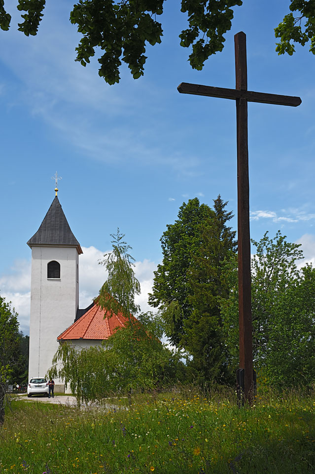 Small church on a hill near the Lužarji village.